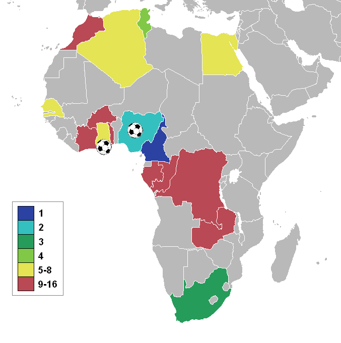 Countries positions in the African Cup of Nations 1st 2nd 3rd 4th 5th-8th 9th-16th Football denotes host nation